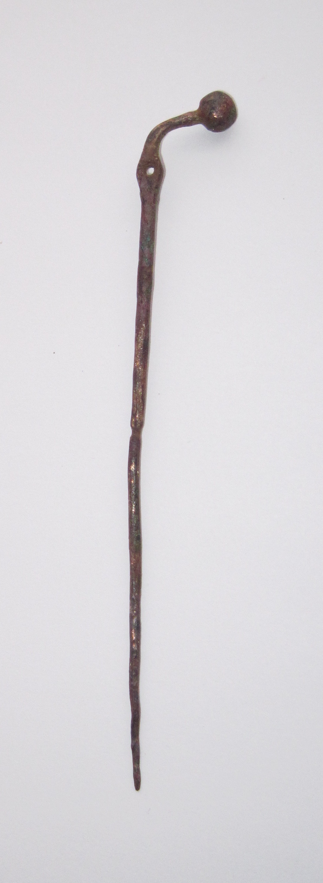 cloak pin acquired by myself; pin corresponds to same on page 16 (&17) in Richard Hattatt's book Ancient and Romano-British Brooches